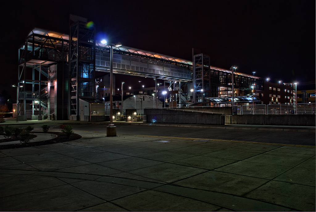 Kent Sounder Station at night.